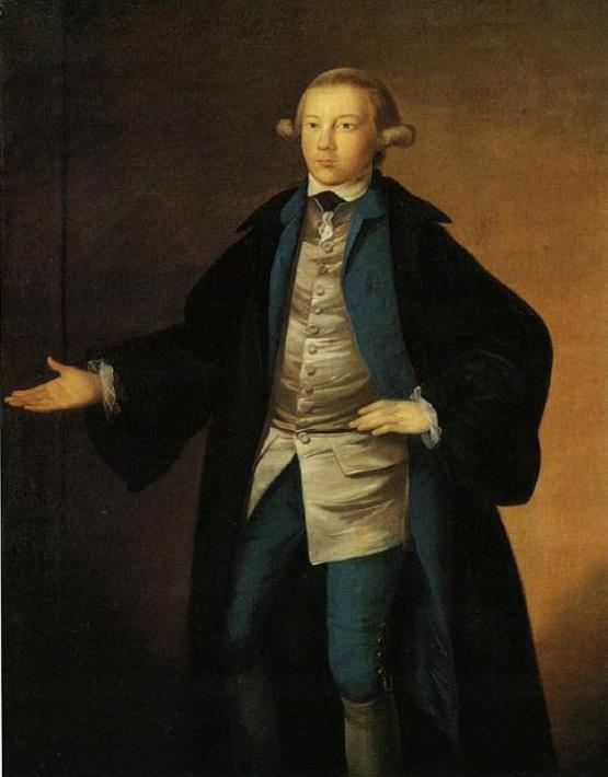 This image shows sixteen-year-old James H. McCulloch, a member of the College of New Jersey (now Princeton University) class of 1773. He is wearing undergraduate robes while still a student. This image comes from page 19 of Don Oberdorfer. Princeton University: The First 250 Years. Princeton, NJ: Trustees of Princeton University, 1995. According to Oberdorfer, this is "the only known 18th-century portrait of an American collegian wearing the robes of an undergraduate." Painting located in Princeton University Art Musuem